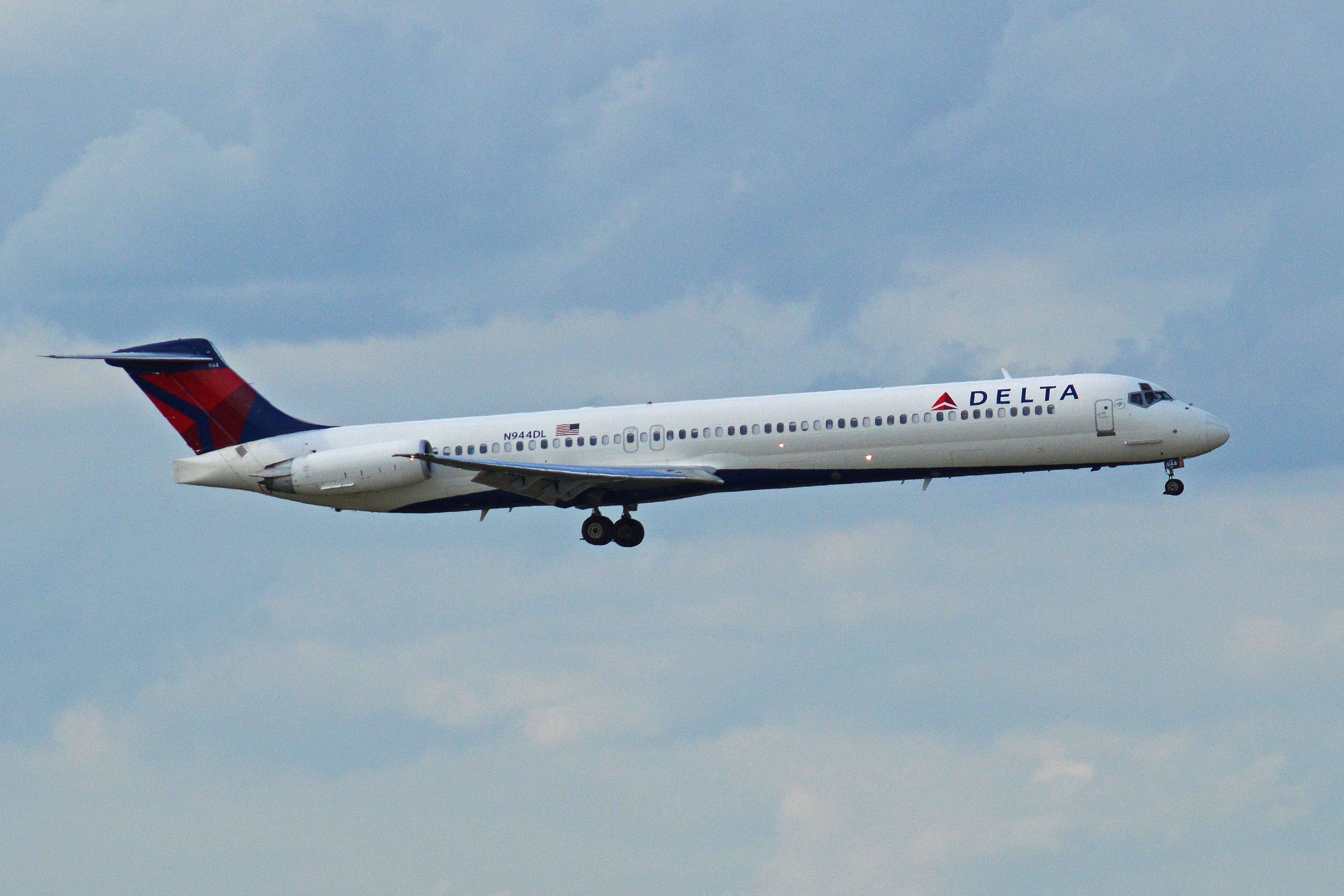 c/n 49817, l/n 1612. Seen on finals to runway 8L at Atlanta Hartsfield, Georgia, USA. 18-4-2013